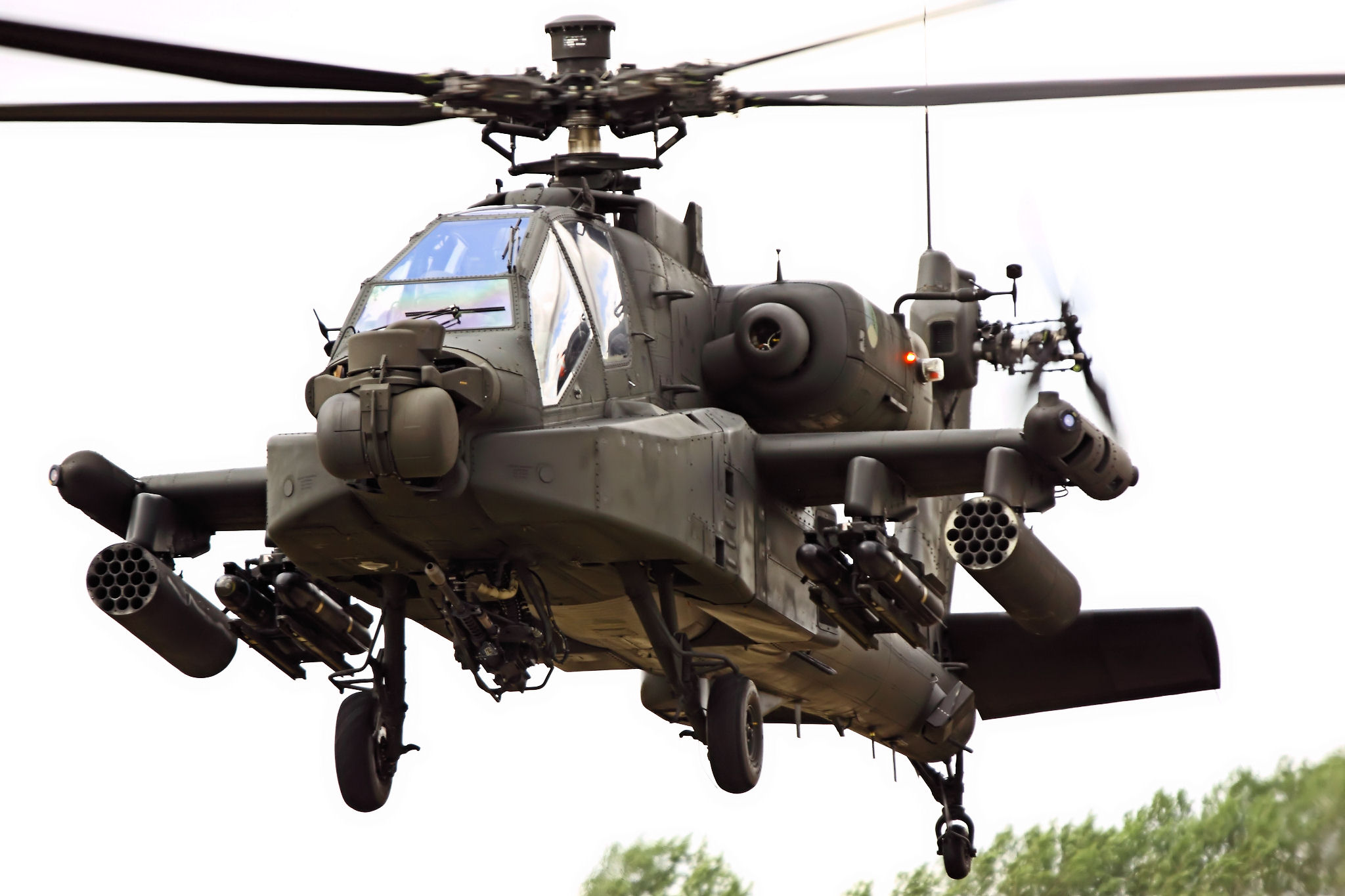 Apache - RIAT 2010